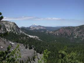 Aspen Butte Caldera in the Mountain Lakes Wilderness, Winema National Forest, Oregon. Mt. McLaughlin is in the background.